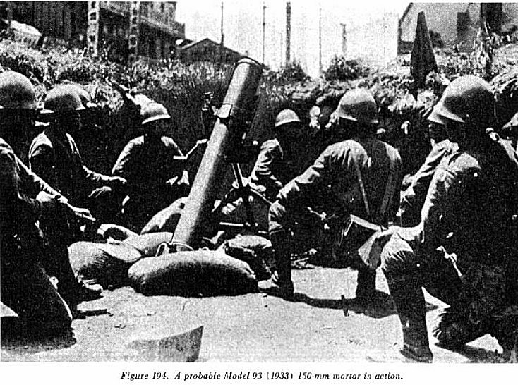 Type 93 15 cm mortar